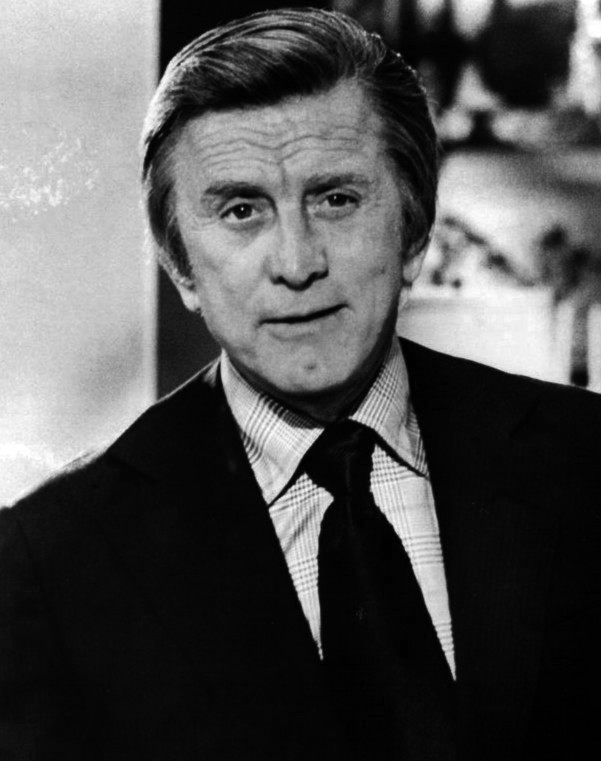 Publicity photo of Kirk Douglas as he guest hosted The Tonight Show in 1975.